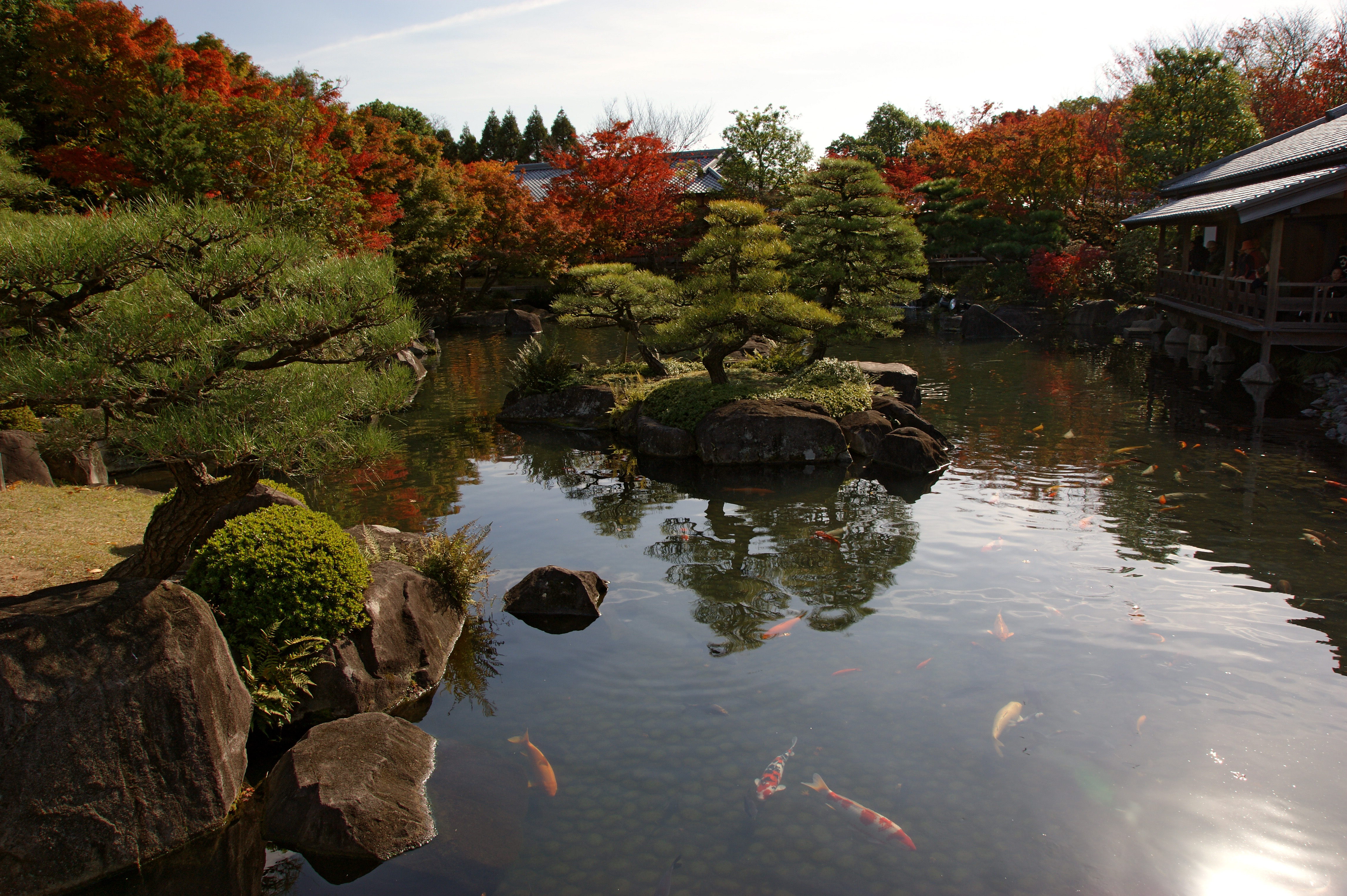 Koukoen, Himeji, Hyogo prefecture, Japan